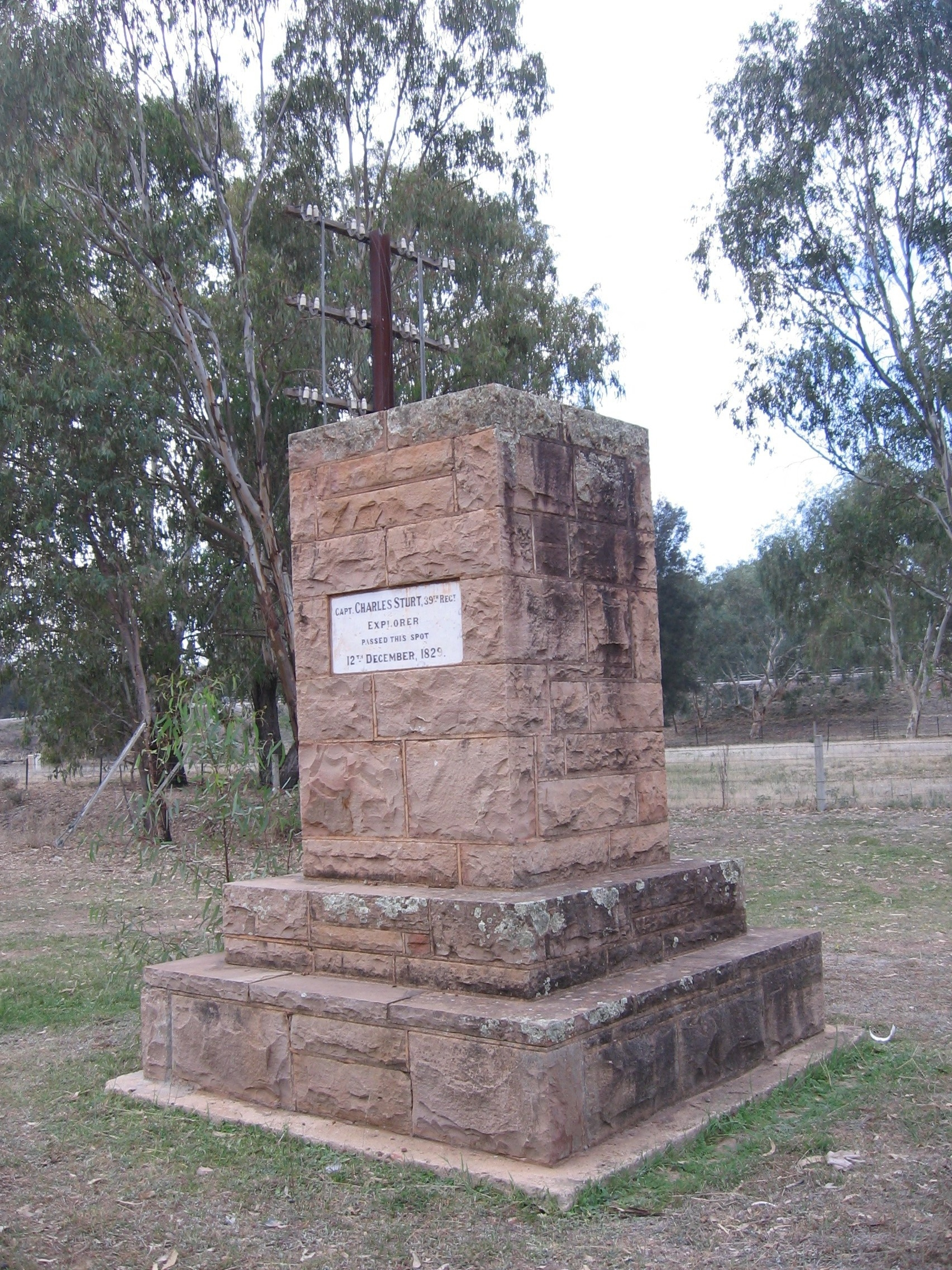 Charles Sturt memorial at Narrandera, New South Wales